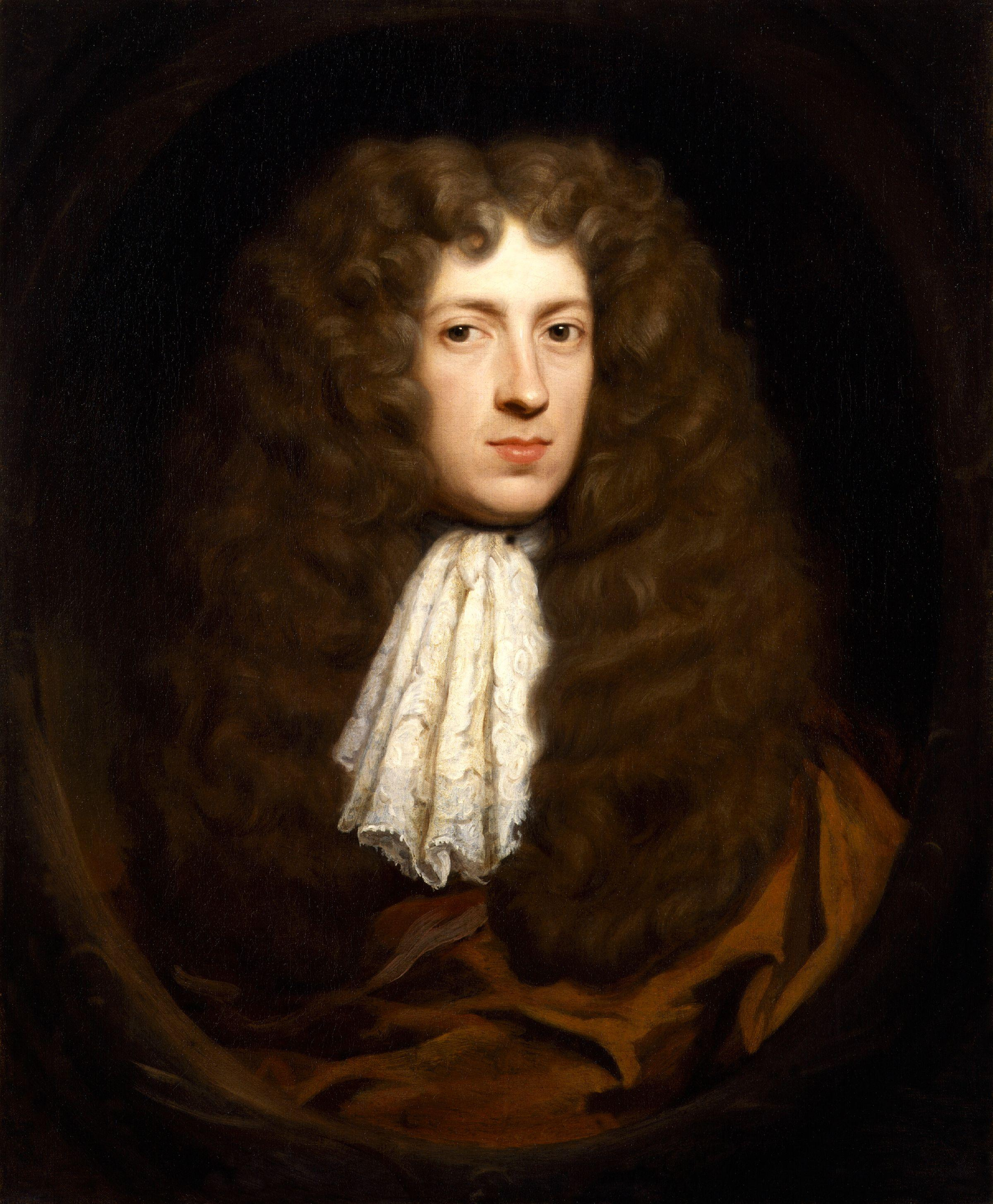 James Vernon, by Sir Godfrey Kneller, Bt (died 1723). All images in this batch have been confirmed as author died before 1939 according to the official death date listed by the NPG.